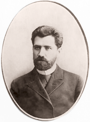 Yakov Afanasyevich Anfimov